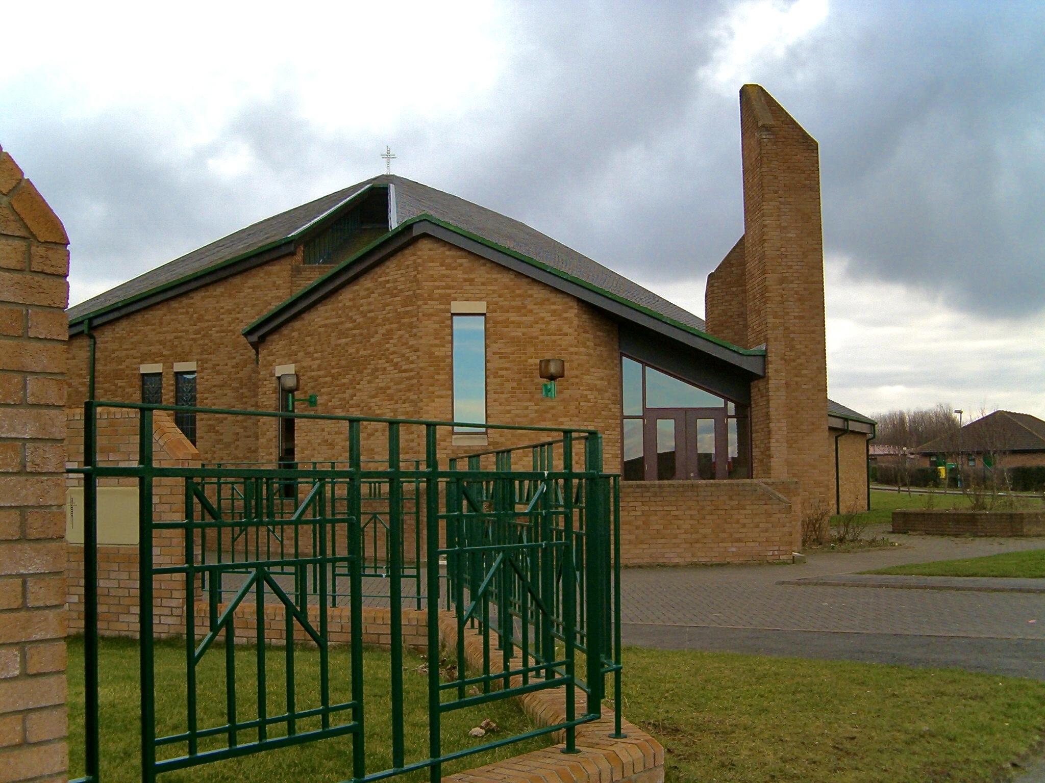 A view of St. Mary's Roman Catholic Cathedral in the Coulby Newham district of Middlesbrough, North Yorkshire, England. Taken by Gavin Lenaghan, hence justifying the below stated license.